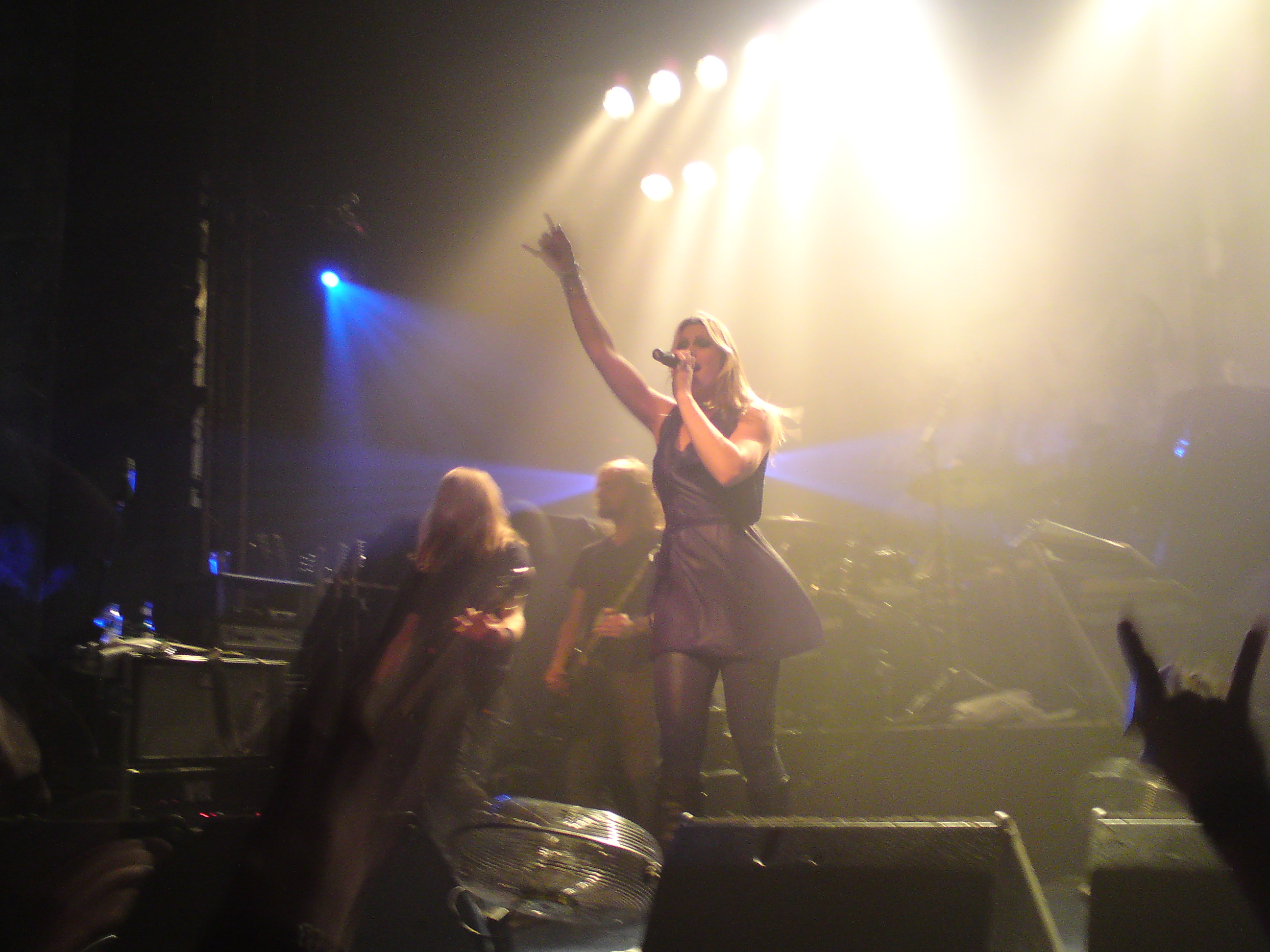 ReVamp (NL) was next to Kells (FRA) Special Guest at the Epica concert on October 10, 2010 at the Tivoli in Bremen.